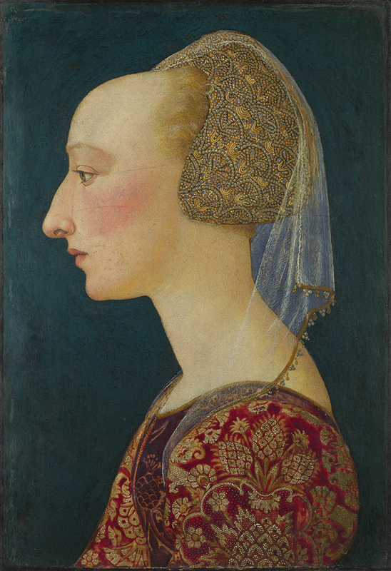 Italian, FlorentinePortrait of a Lady in Redprobably 1460-70Oil and tempera on wood, 42 x 29 cmBought, 1857NG585